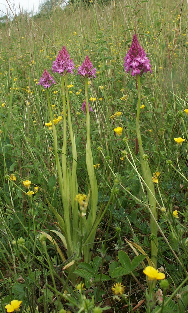 Anacamptis pyramidalis, group of plants